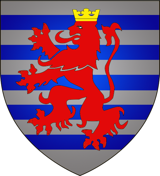 Coat of arms of the municipality of Remich, Luxembourg